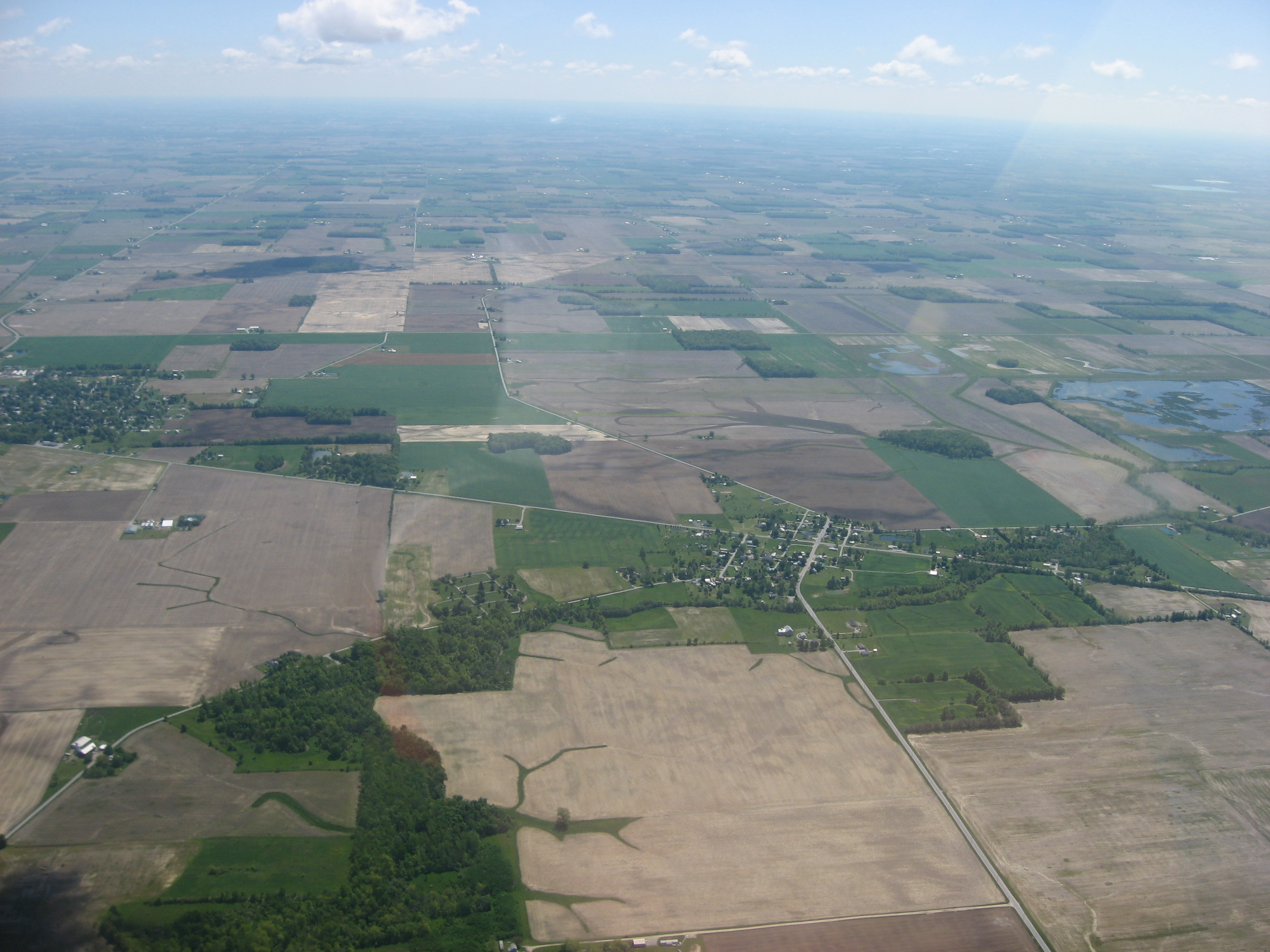 Aerial view of Patterson, a village in Jackson Township, Hardin County, Ohio, United States. Picture taken from a Diamond Eclipse light airplane at an altitude of 4,150 feet MSL and a bearing of approximately 107º.